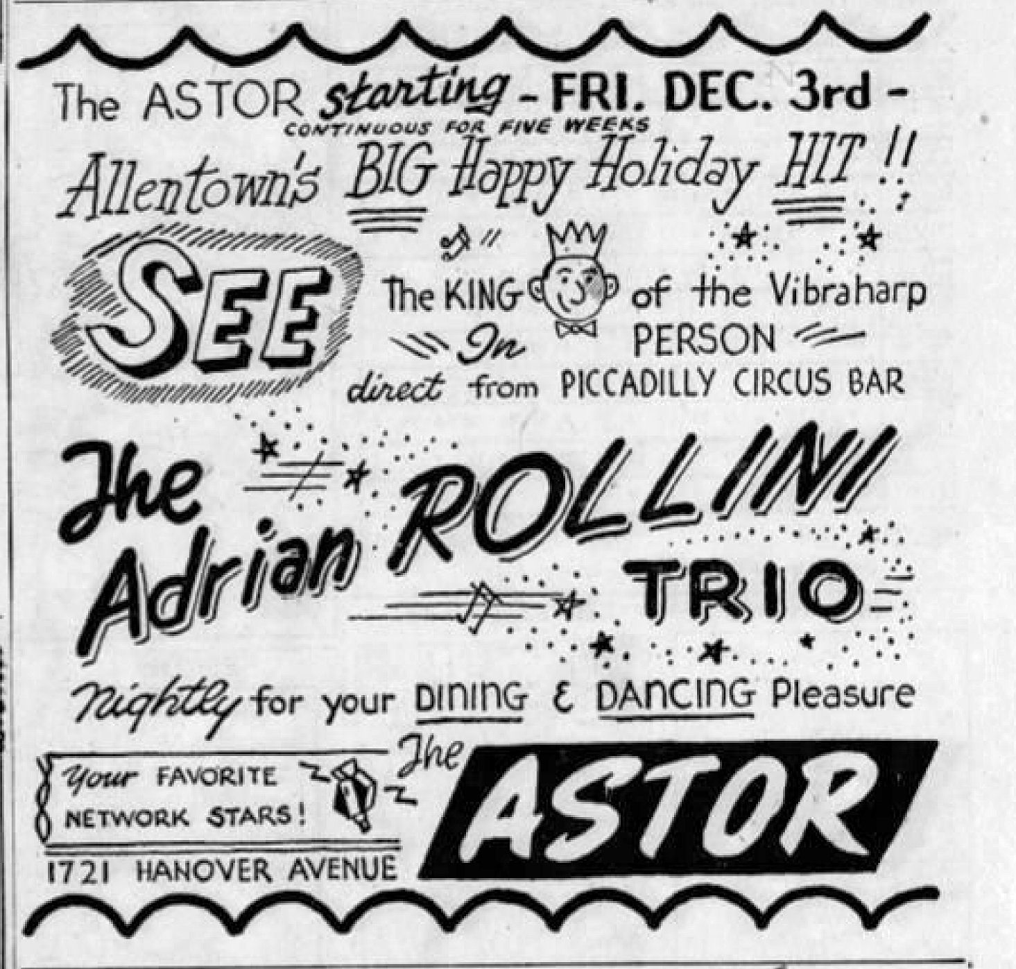 Astor Restaurant advertisement featuring the Adrian Rollini Trio - 4 Dec. 1948 Morning Call, Allentown PA